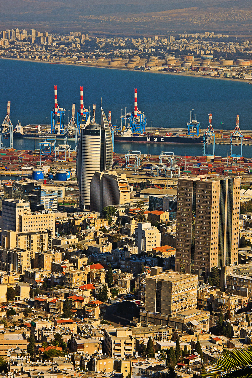 Port of Haifa, Cities in Israel